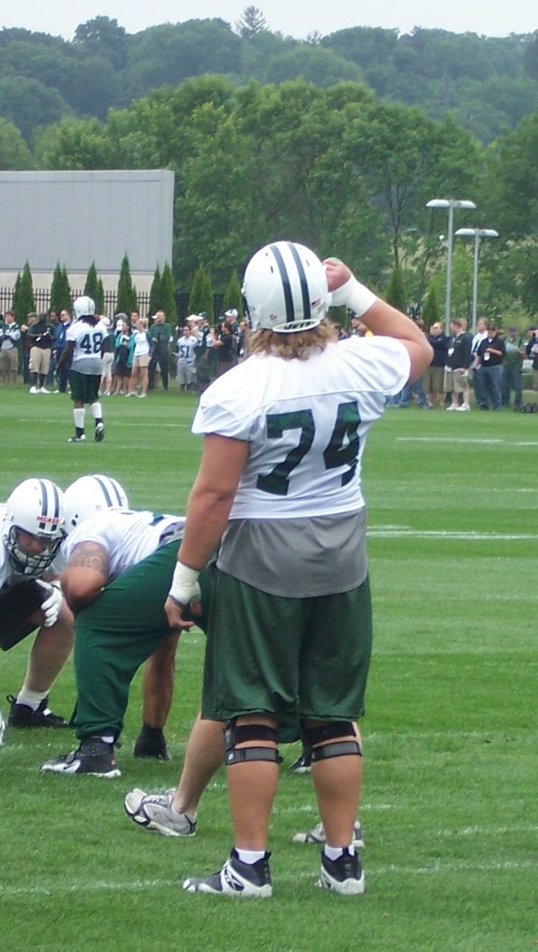 Nick Mangold (#74) watching second-teamers work out at a New York Jets mini-camp in Florham Park, NJ